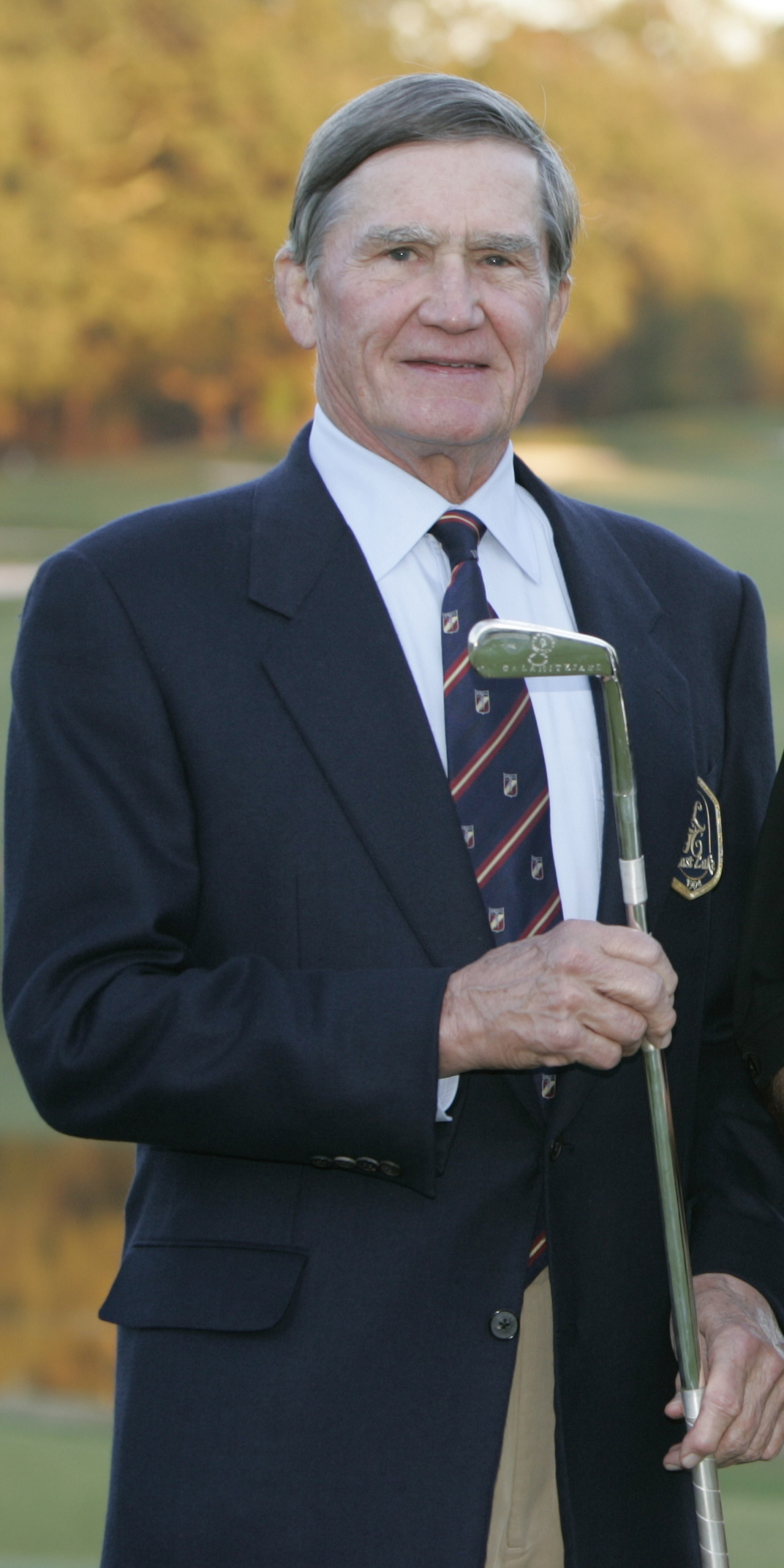 Tom Cousins